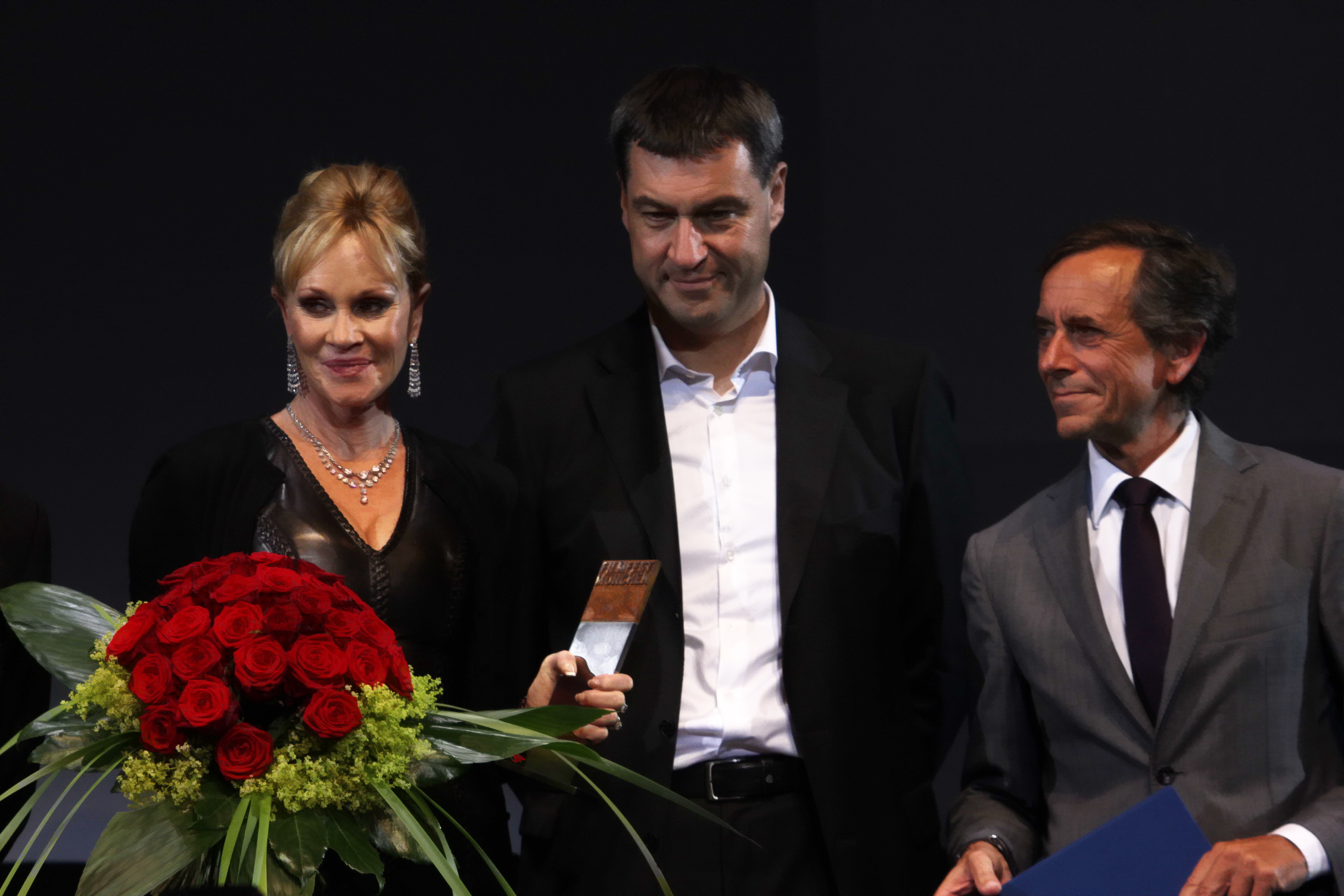 Melanie Griffith gets at the Munich Film Festival Cine Merit Award for lifetime achievement by the Bavarian State Minister of Finance Markus Söder.